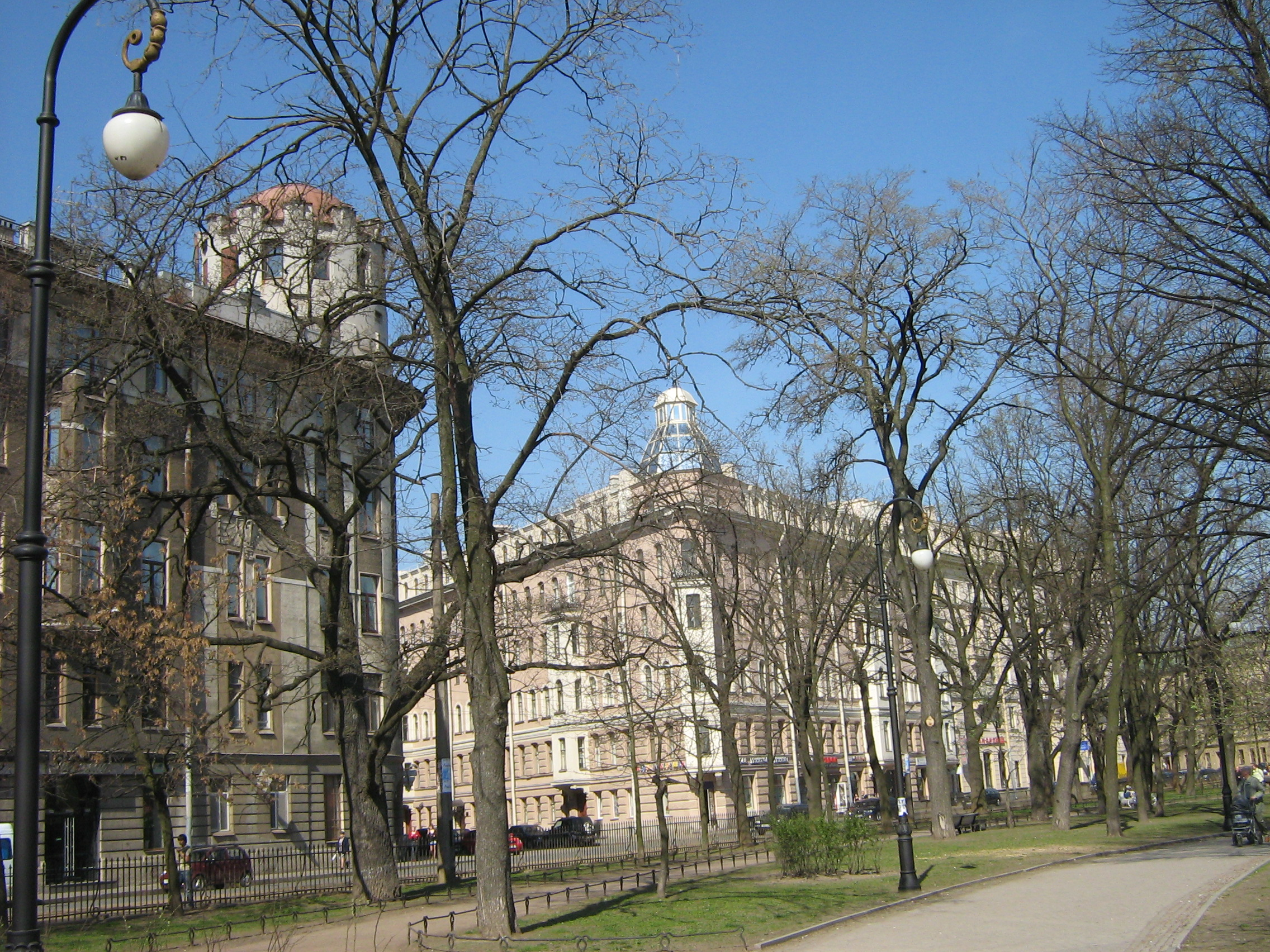 77 and 75, Kronwerksky Prospekt ntar crossing with Blokhin Street (Saint-Petersburg). View from Alexandrovsky Park.